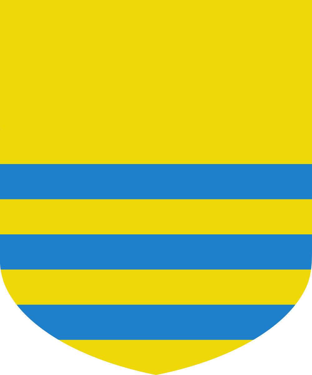 Arpino shield